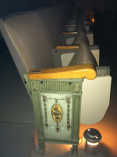 On of the restored sides of the chairs in Lincoln Hall Theater